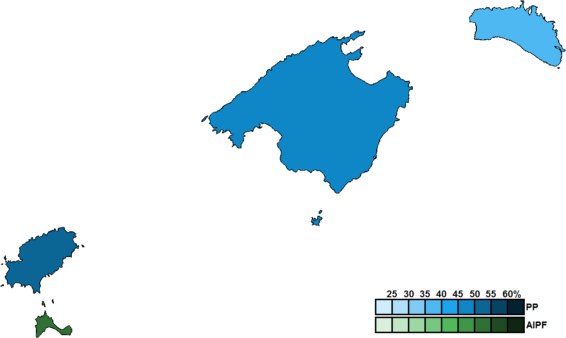 District results for the 2003 Balearic regional election.